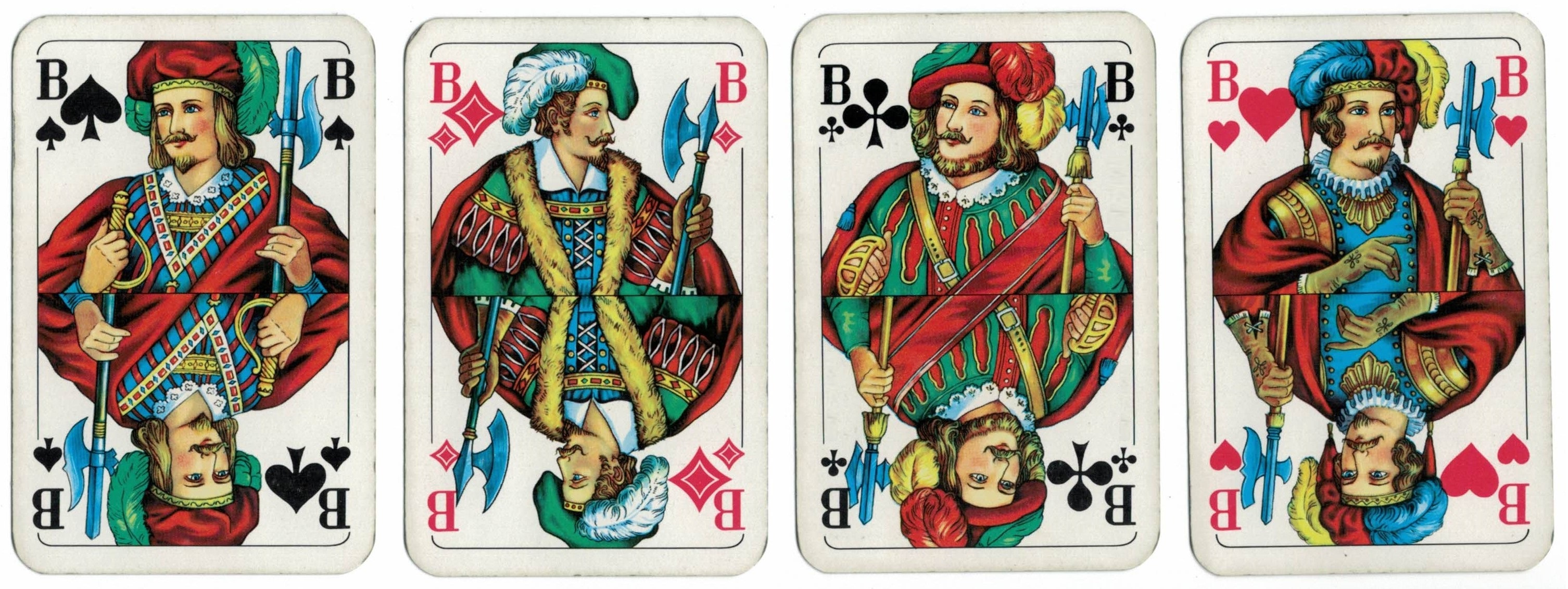 Four jacks from the Berlin pattern, the most common playing card pattern in Germany.